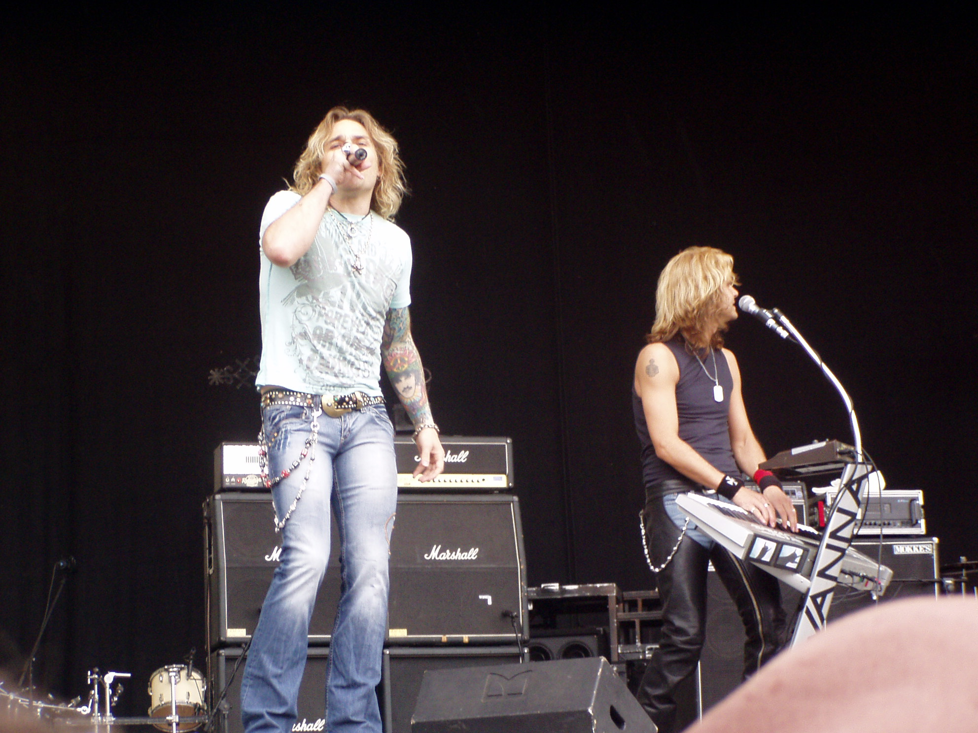 I White Lion al Gods of Metal 2007